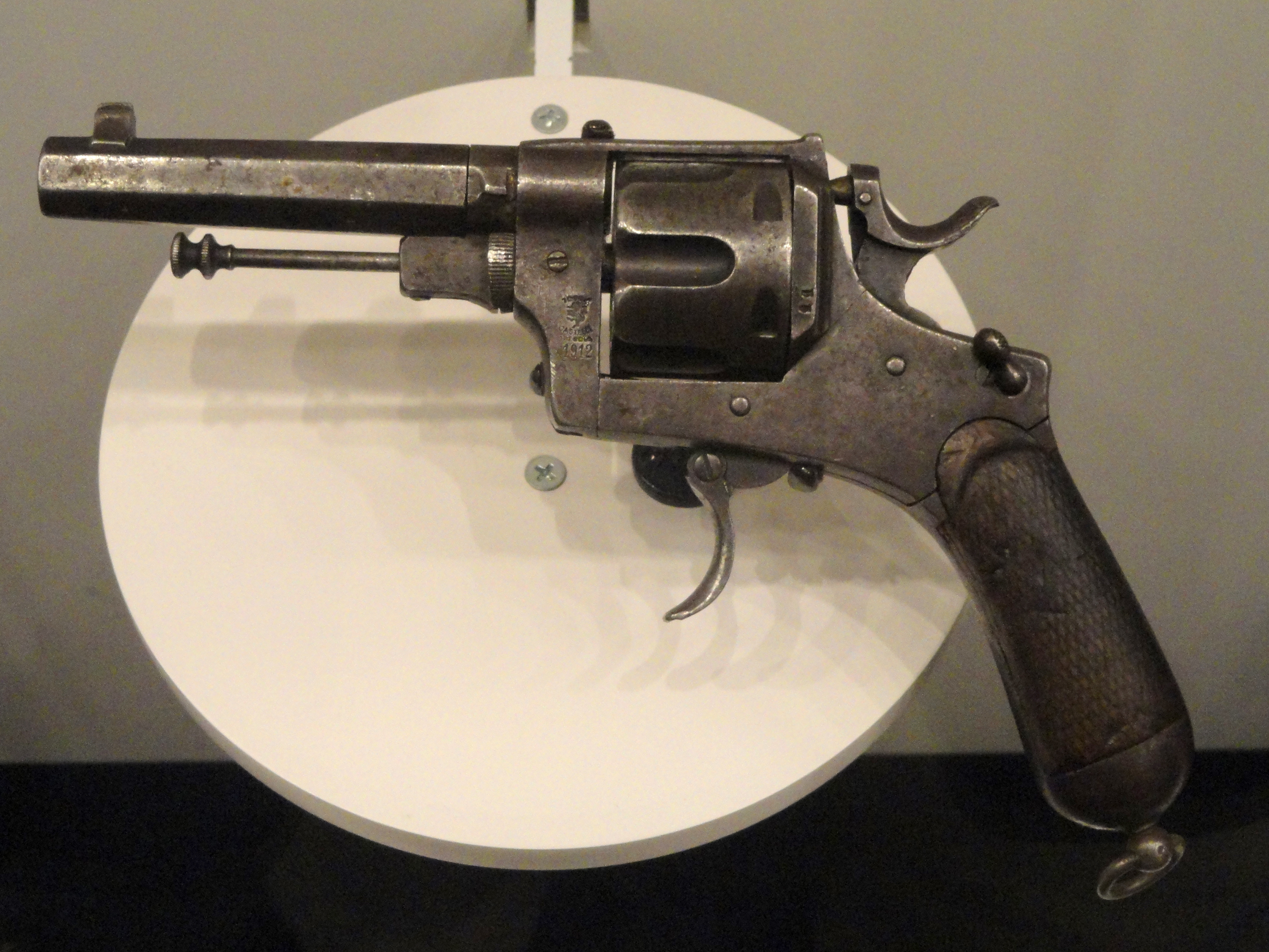 Handgun exhibited in the National World War I Museum at the Liberty Memorial, 100 W. 26th Street, Kansas City, Missouri, USA.